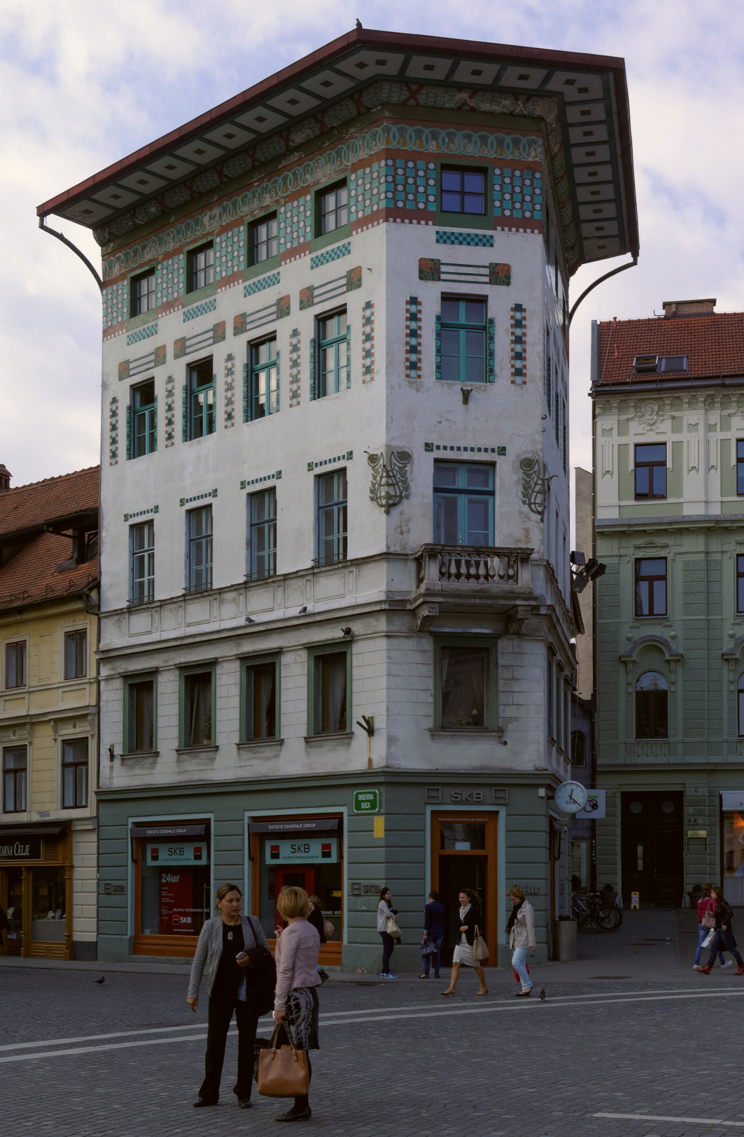 Slovenia, Ljubljana, Hauptmann House at Prešeren Square